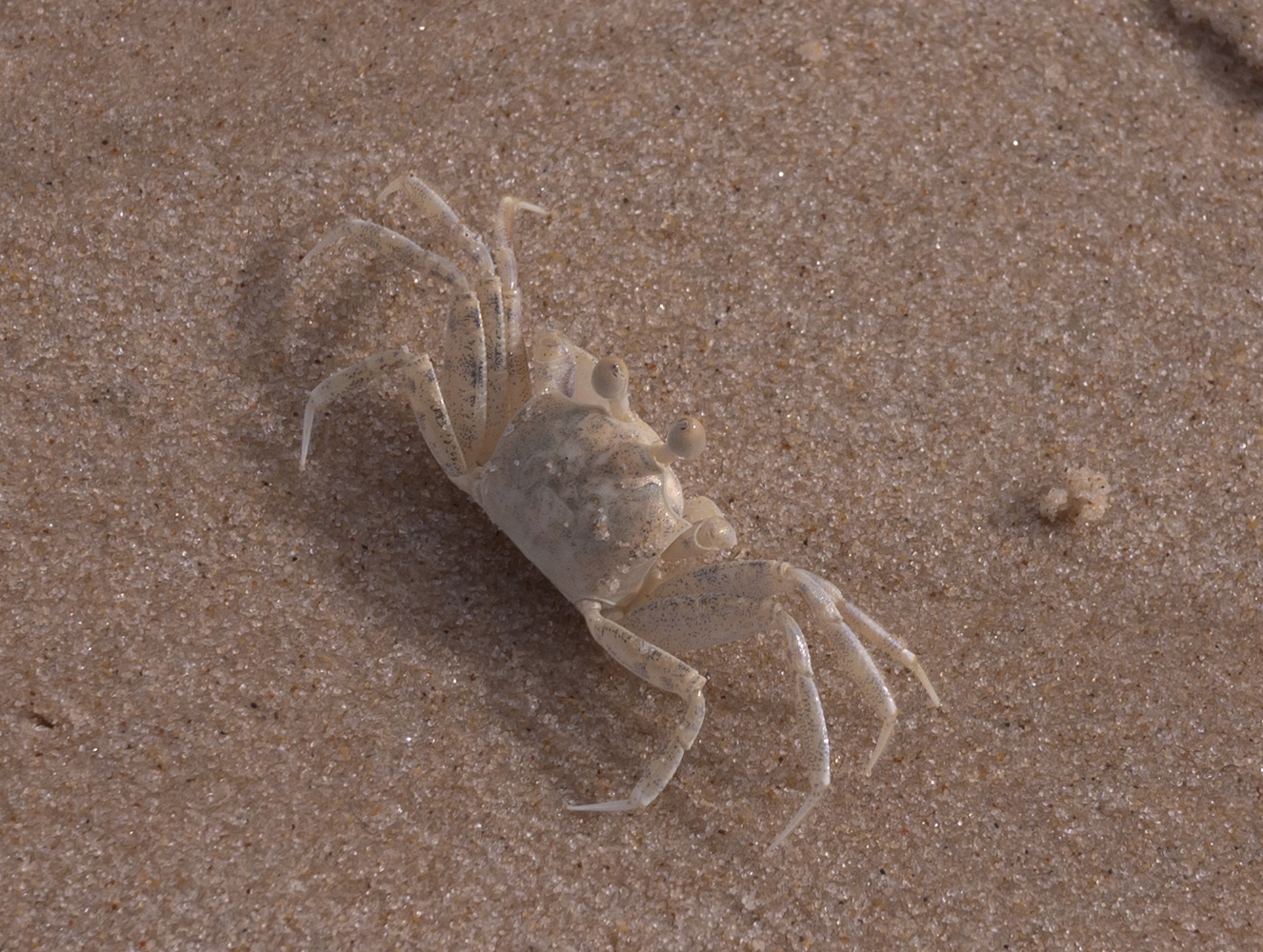 Cropped version of File:Sand Crab (Ocypode pallidula).jpg. Sand Crab (Ocypode pallidula, Point Lookout, Queensland, Australia)